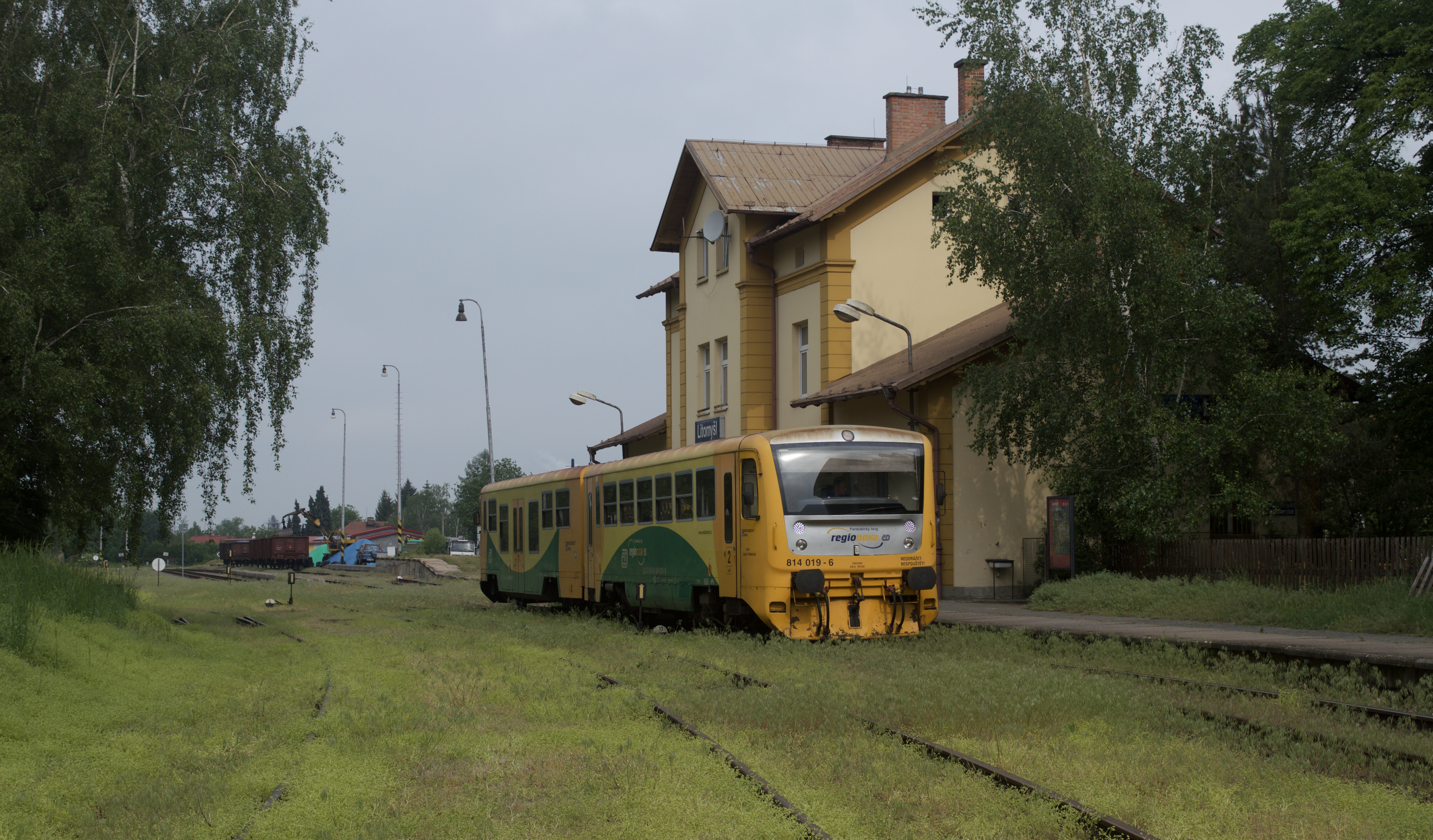 814019 at the branch line terminus of Litomyšl on 11 May 2018 having worked train Os15004, 08:39 Choceň to Litomyšl.